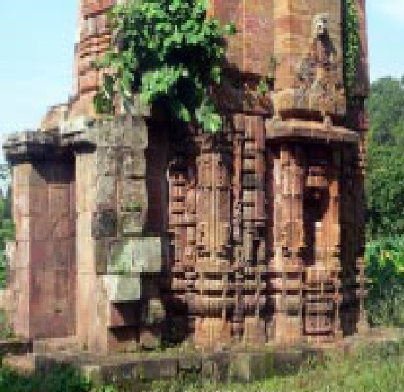 Nagesvara Temple is a disused Hindu temple located in the village of Bhubaneswar. It is situated on the western right bank of the Lingaraja West Canal at a distance of 10.35 metres (34.0 ft) west of Subarnesvara temple, located across the canal